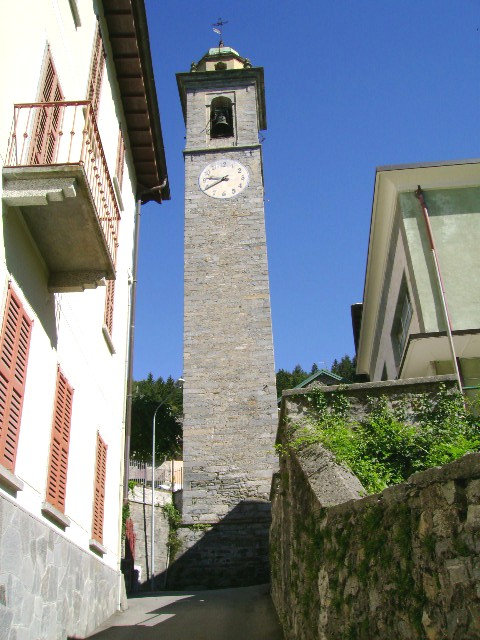 Bell tower of Premeno (Province of Verbano-Cusio-Ossola, Italy) it: Campanile di Premeno.